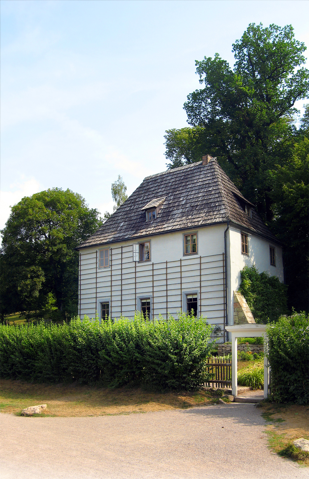 The 'Gartenhaus' of Goethe in Weimar.